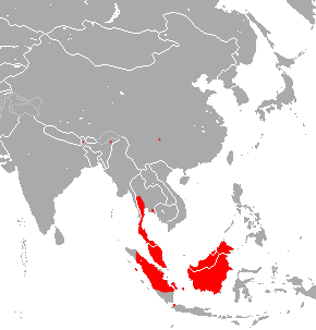 Trefoil Horseshoe Bat (Rhinolophus trifoliatus) range